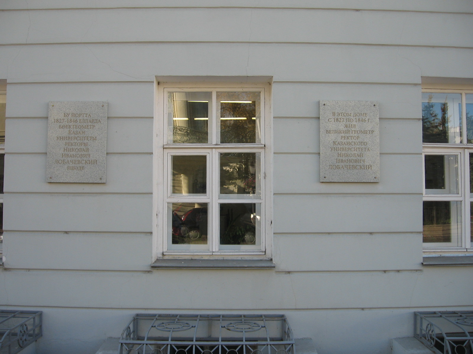 Lobachevsky. Commemorative plaque on Kazan Univercity building